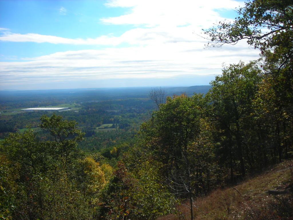 View from scenic overlook, Mount McGregor, Saratoga County, NY, looking east.